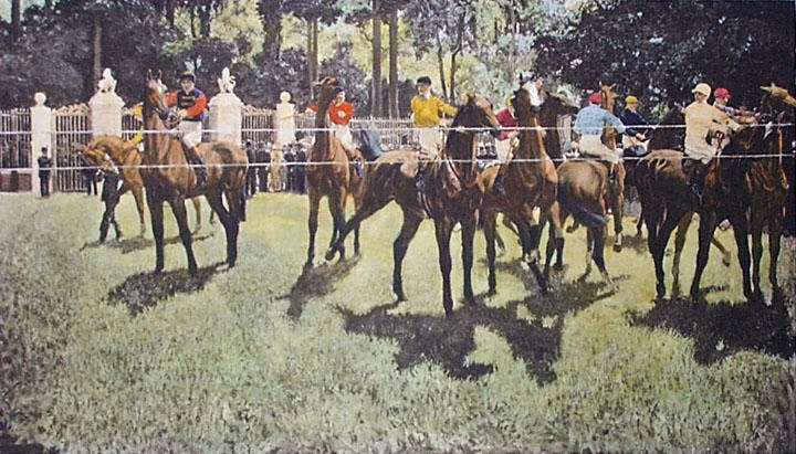 Toeing the Line (Ascot)